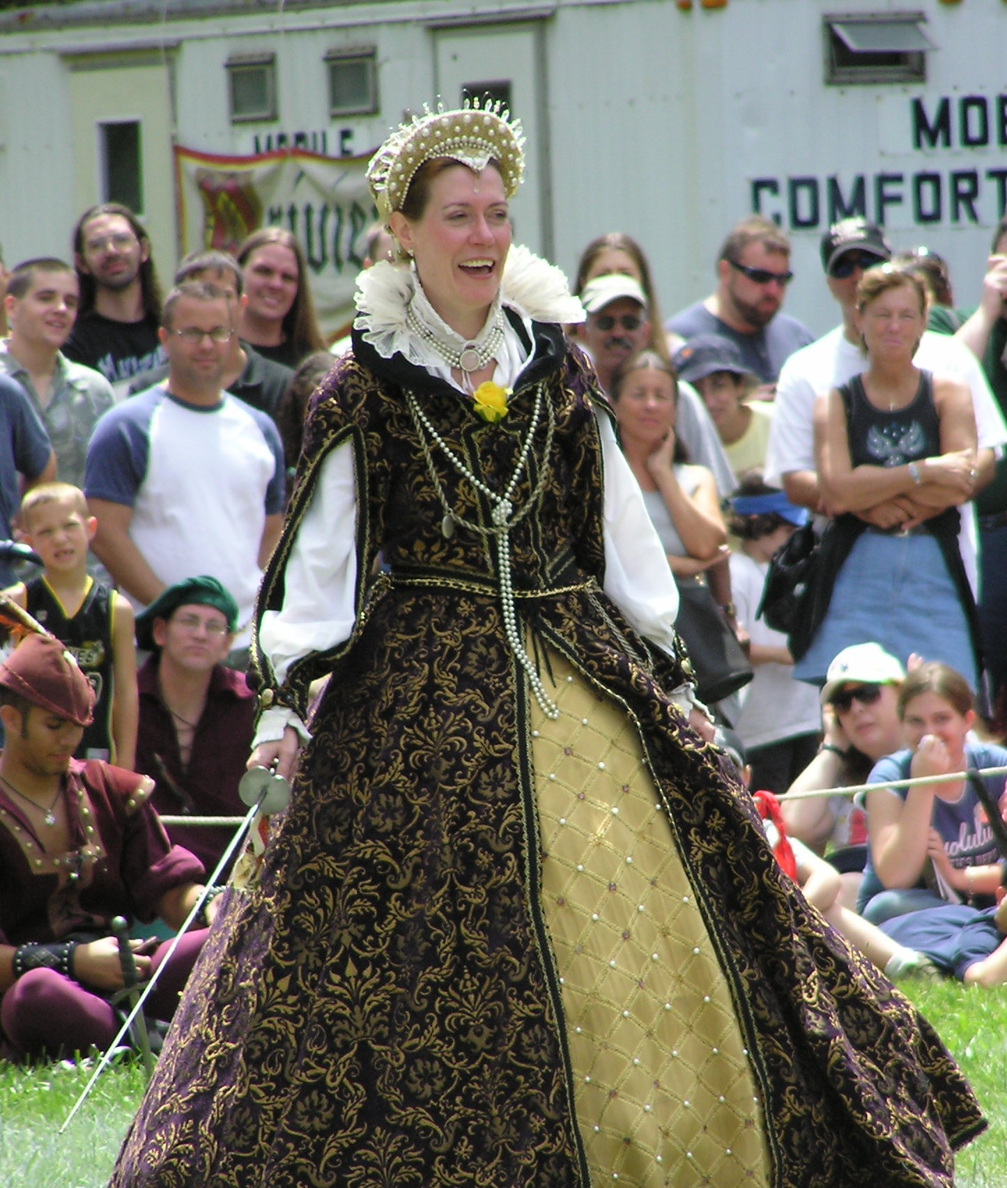 Queen Elizabeth I at the NYRF